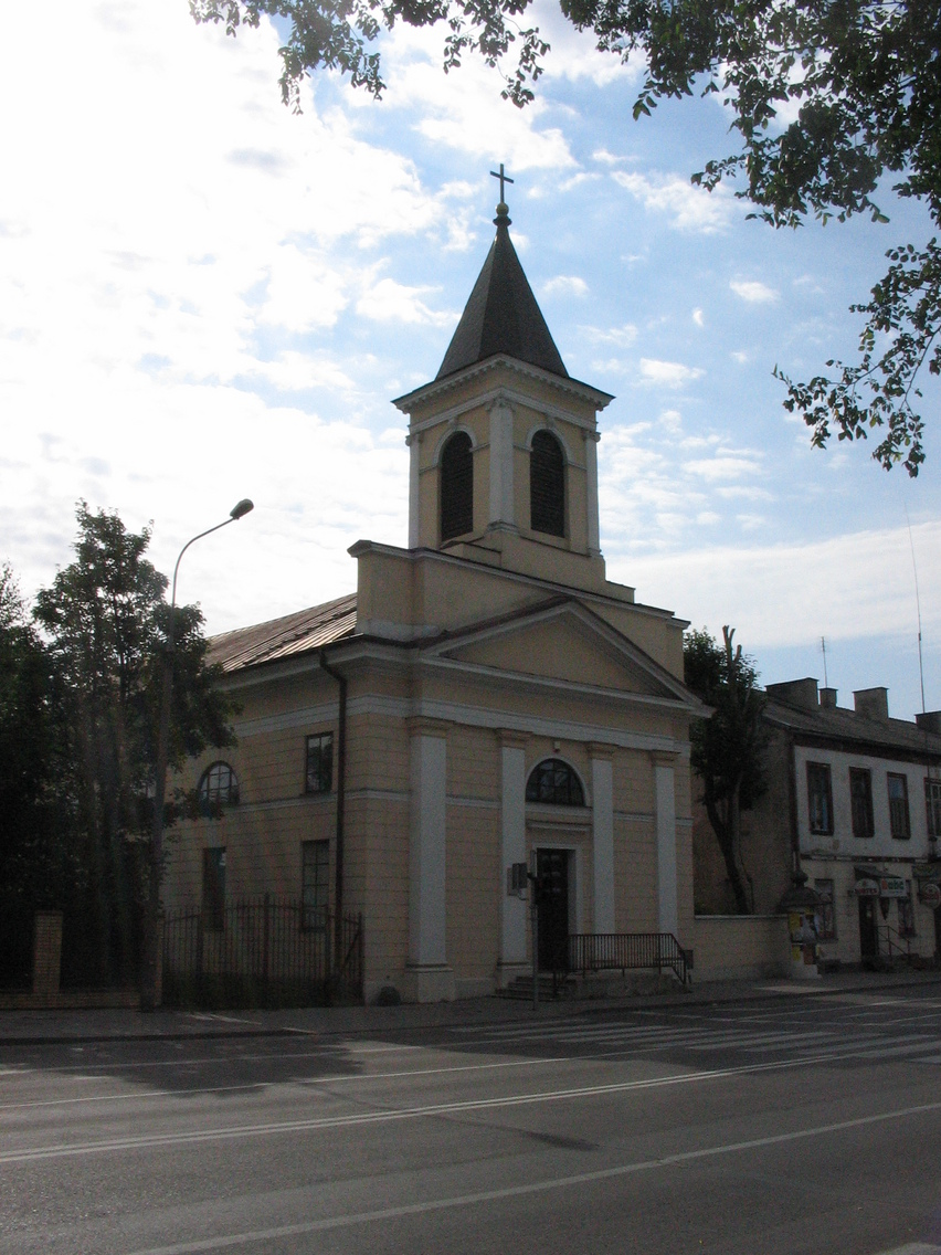 Lutheran church in Suwałki, Poland